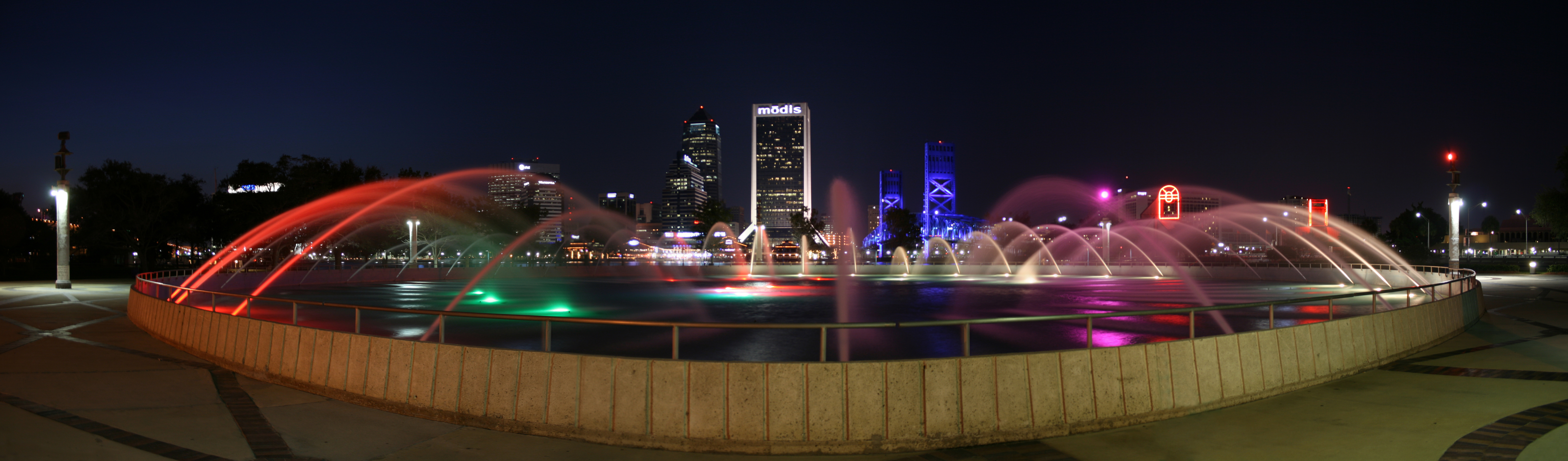 Photo of the Friendship Fountain at night in Jacksonville, Florida, USA.